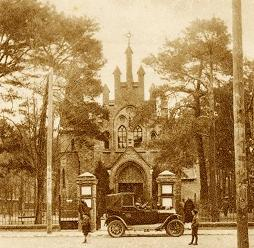 Church in Otwock before 1925